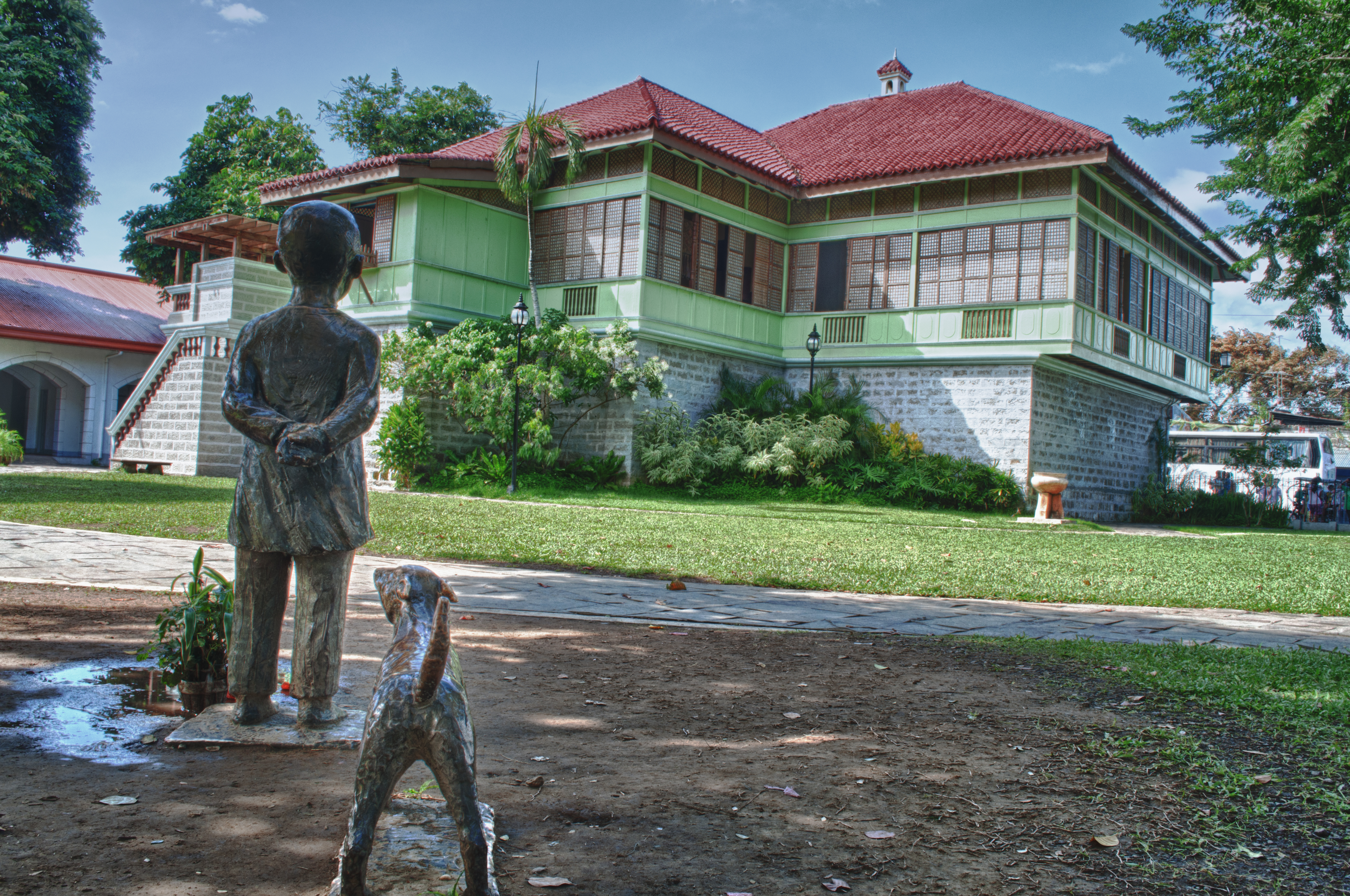 House of Dr. Jose P. Rizal.